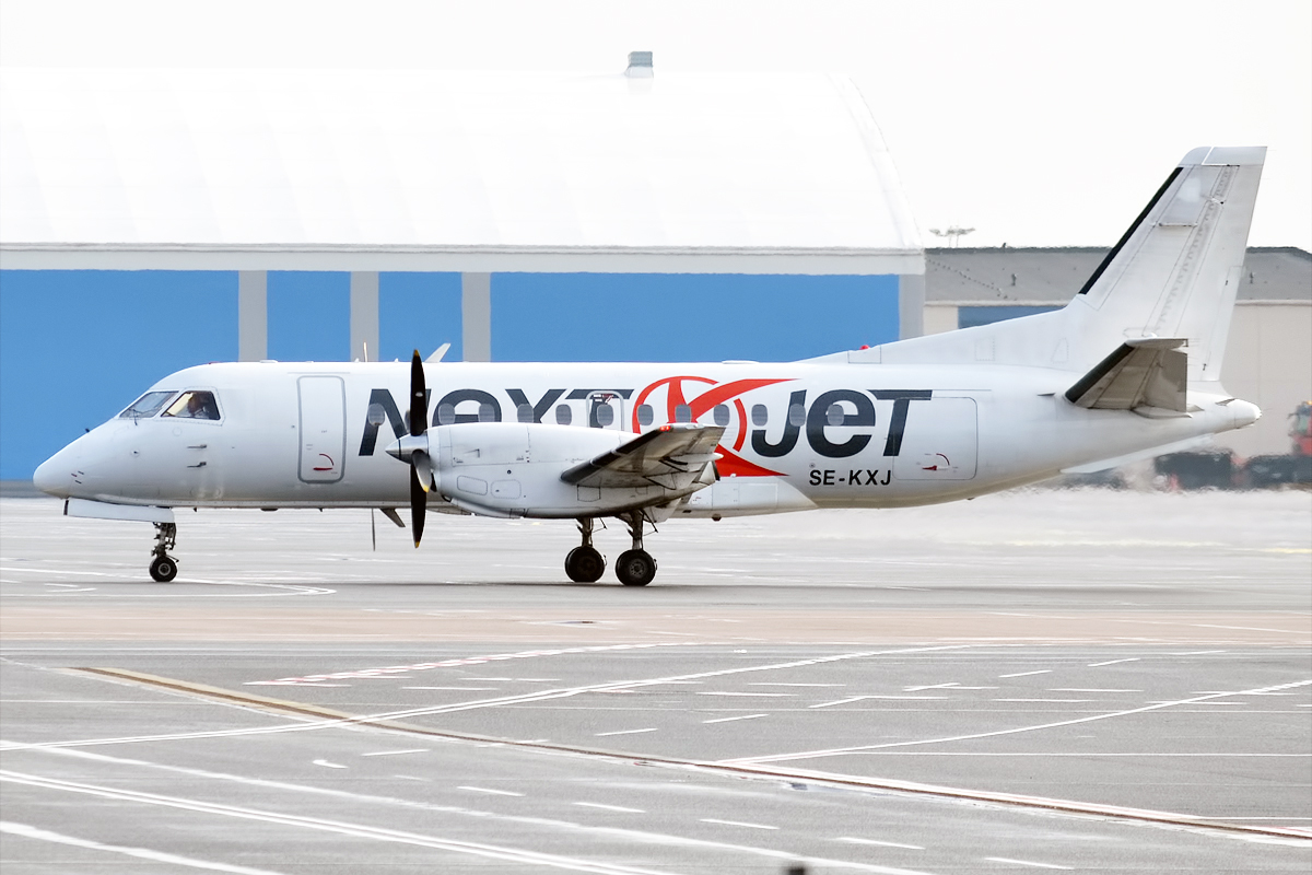 NextJet SE-KXJ, Saab 340B